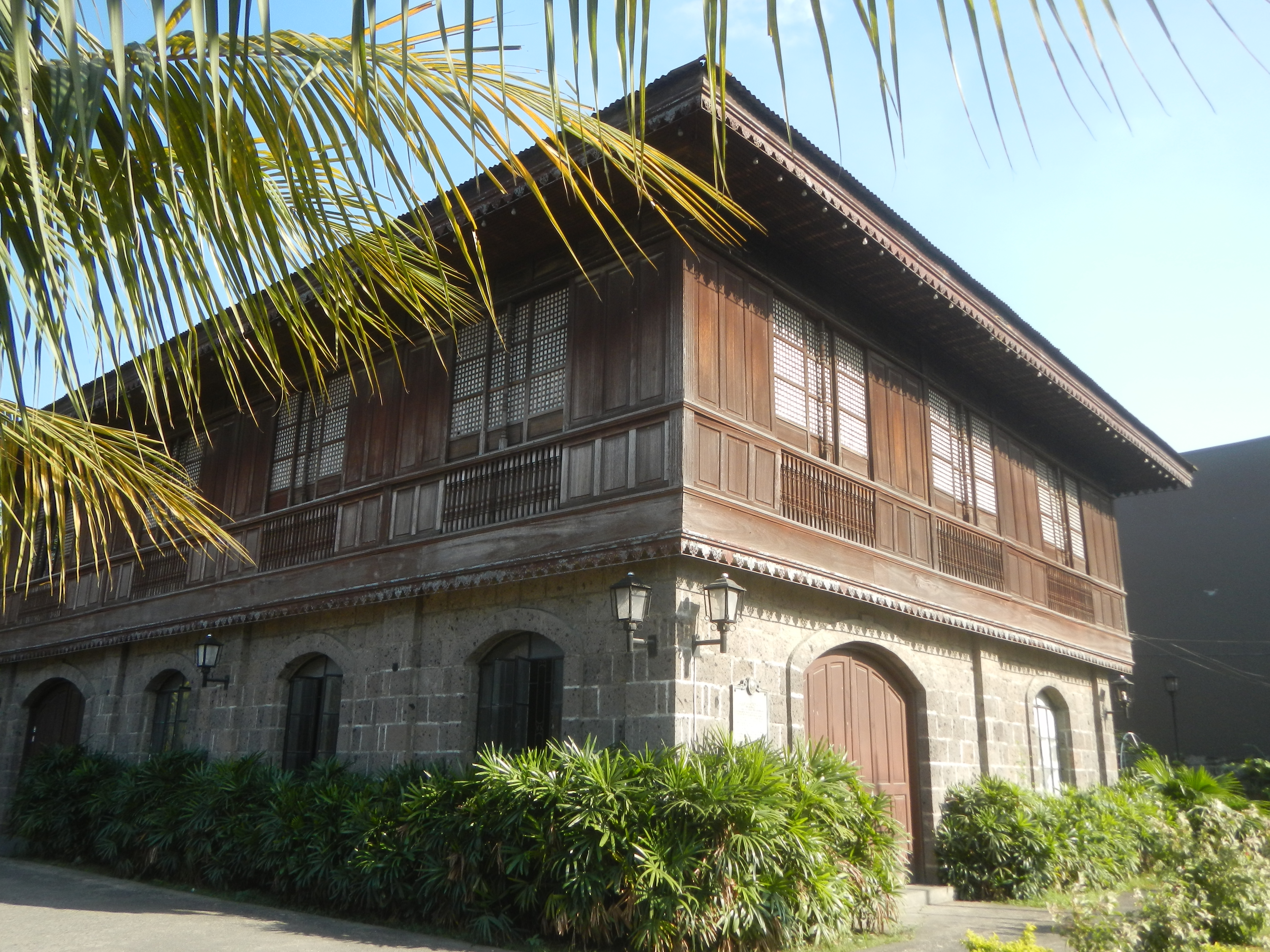 St. Joseph's College (Balite, Rodriguez, Rizal) Licerio Gerónimo Municipal Gymnasium (J. P. Rizal Avenue, Balite, Rodriguez, Rizal) Montalban Memorial Park (Balite, Rodriguez, Rizal) Battle of San Mateo and Montalban Jollibee restaurants in Rodriguez, Rizal Eulogio Rodriguez Y Adona ancestral house (J. P. Rizal Avenue, Balite, Rodriguez, Rizal) Town Hall of Rodriguez, Rizal J. P. Rizal Avenue Manggahan, Rodriguez, Rizal from Mango Bridge - Mango River (Burgos, Rodriguez, Rizal) Balite, Rodriguez, Rizal Eulogio Rodriguez Barangays Burgos 14°42'59"N 121°8'10"E Manggahan 14°43'30"N 121°8'42"E Balite 14°43'58"N 121°8'45"E Rodriguez, Rizal along Mabini Street, from Batasan–San Mateo Road Batasan Hills, Quezon City, Metro Manila, formerly known as Constitution Hill, corner Commonwealth Avenue, Quezon City formerly known as Don Mariano Marcos Avenue as part of Radial Road 7 (R-7) to Batasan Road (Note: Judge Florentino Floro, the owner, to repeat, Donor Florentino Floro of all these photos hereby donate gratuitously, freely and unconditionally all these photos to and for Wikimedia Commons, exclusively, for public use of the public domain, and again without any condition whatsoever).